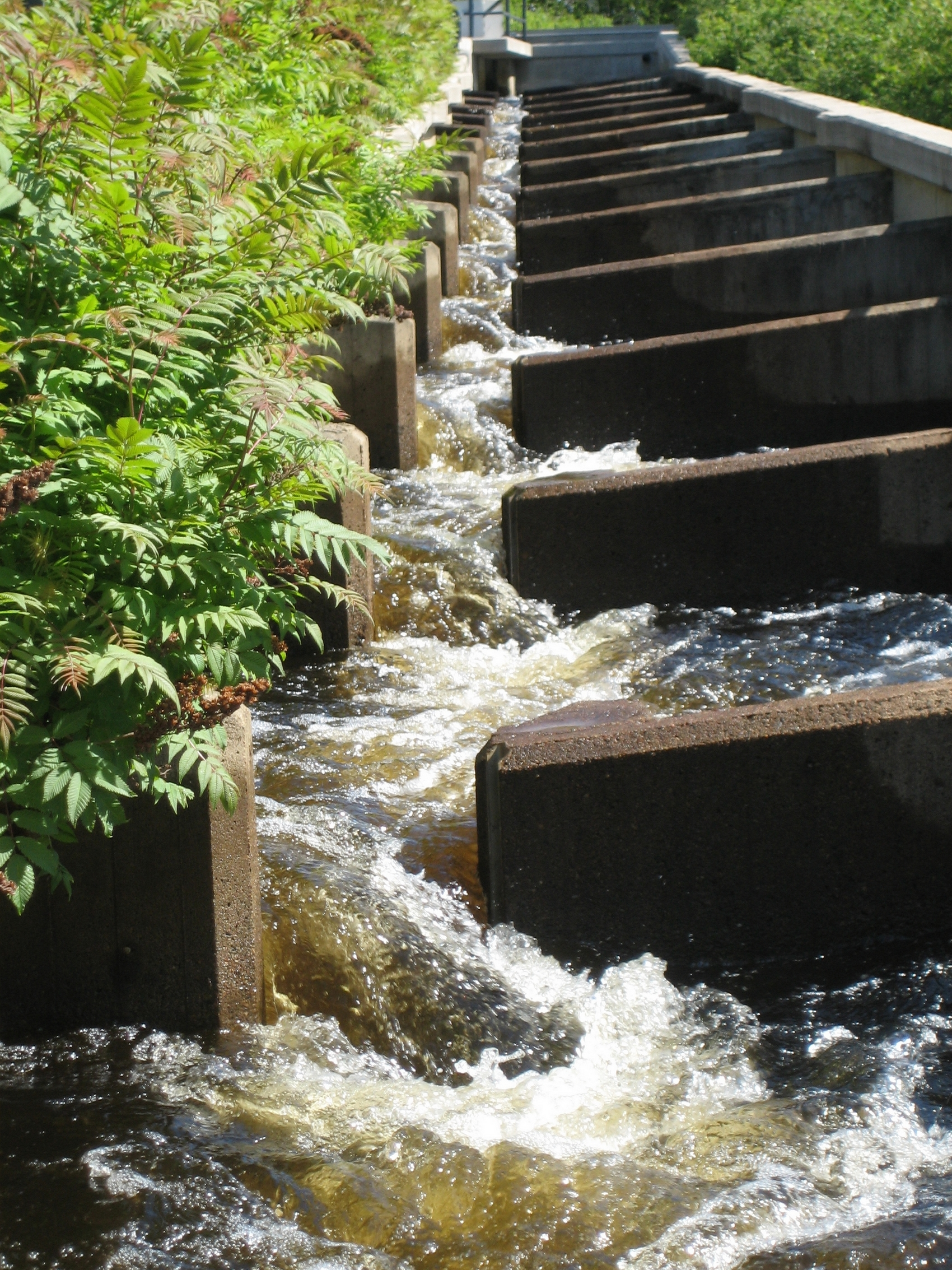 Fish ladders near the Merikoski power station in Oulu, Finland.